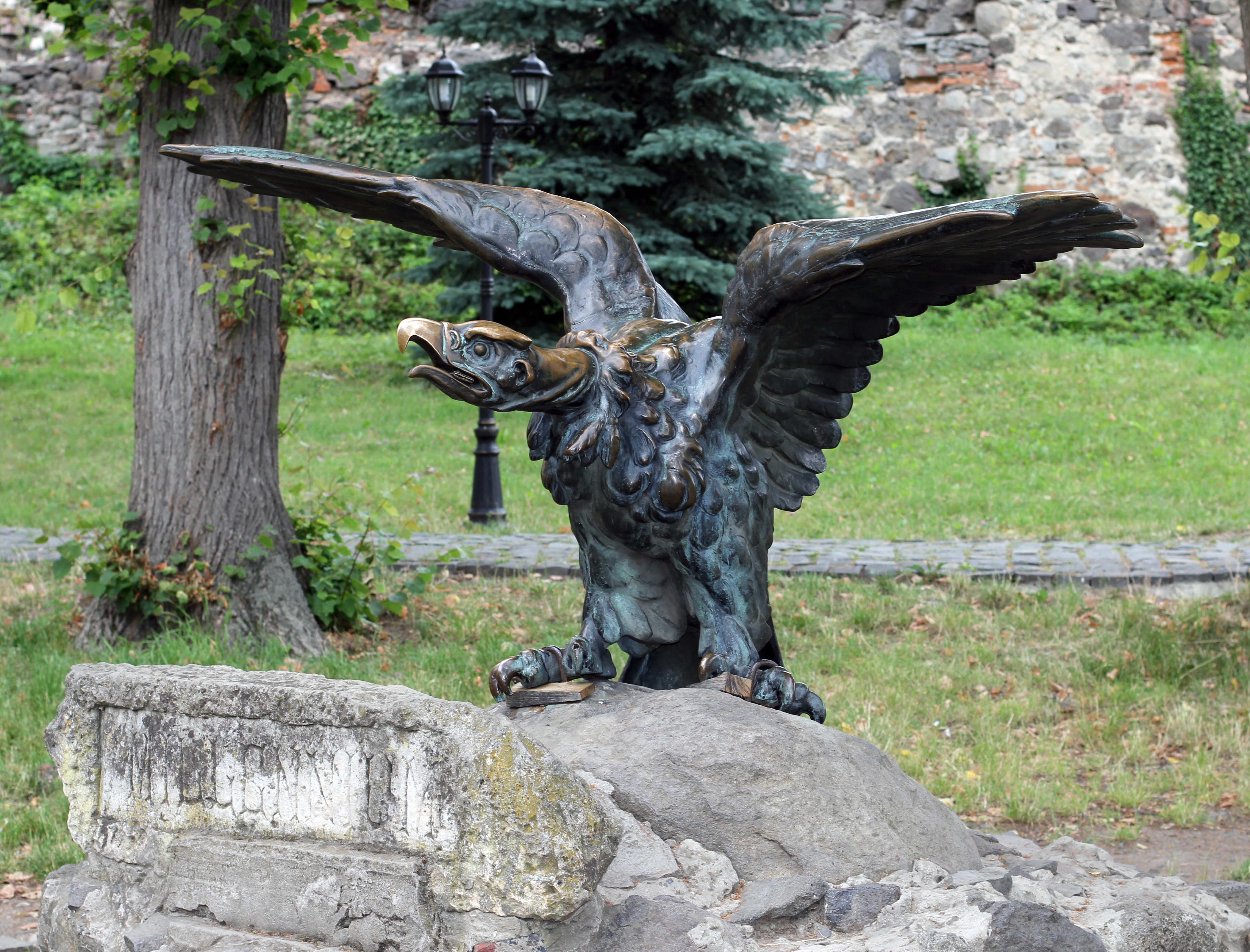 Sculpture of Turul (a mythological bird of Hungarians) in the Castle of Uzhhorod. Early XX century.